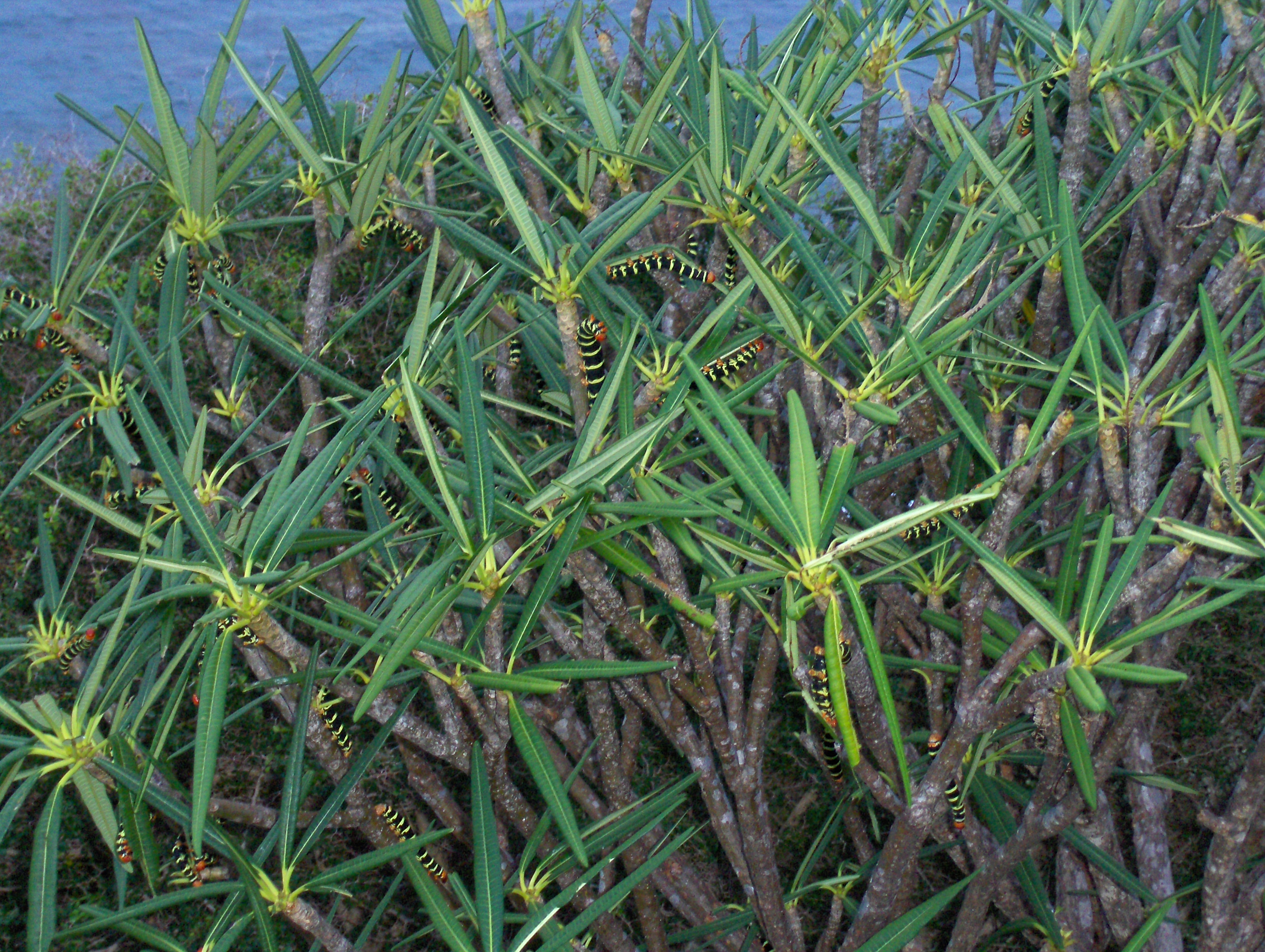 Plumeria alba. Look closely - you'll see dozens of huge frangipani caterpillars chowing down on this bush. And only this bush - all the other nearby bushes were strangely untouched. The guide says that they'll strip this bush and move on to the next one, and this one's leaves will simply grow back. The bush is used to this sort of treatment.